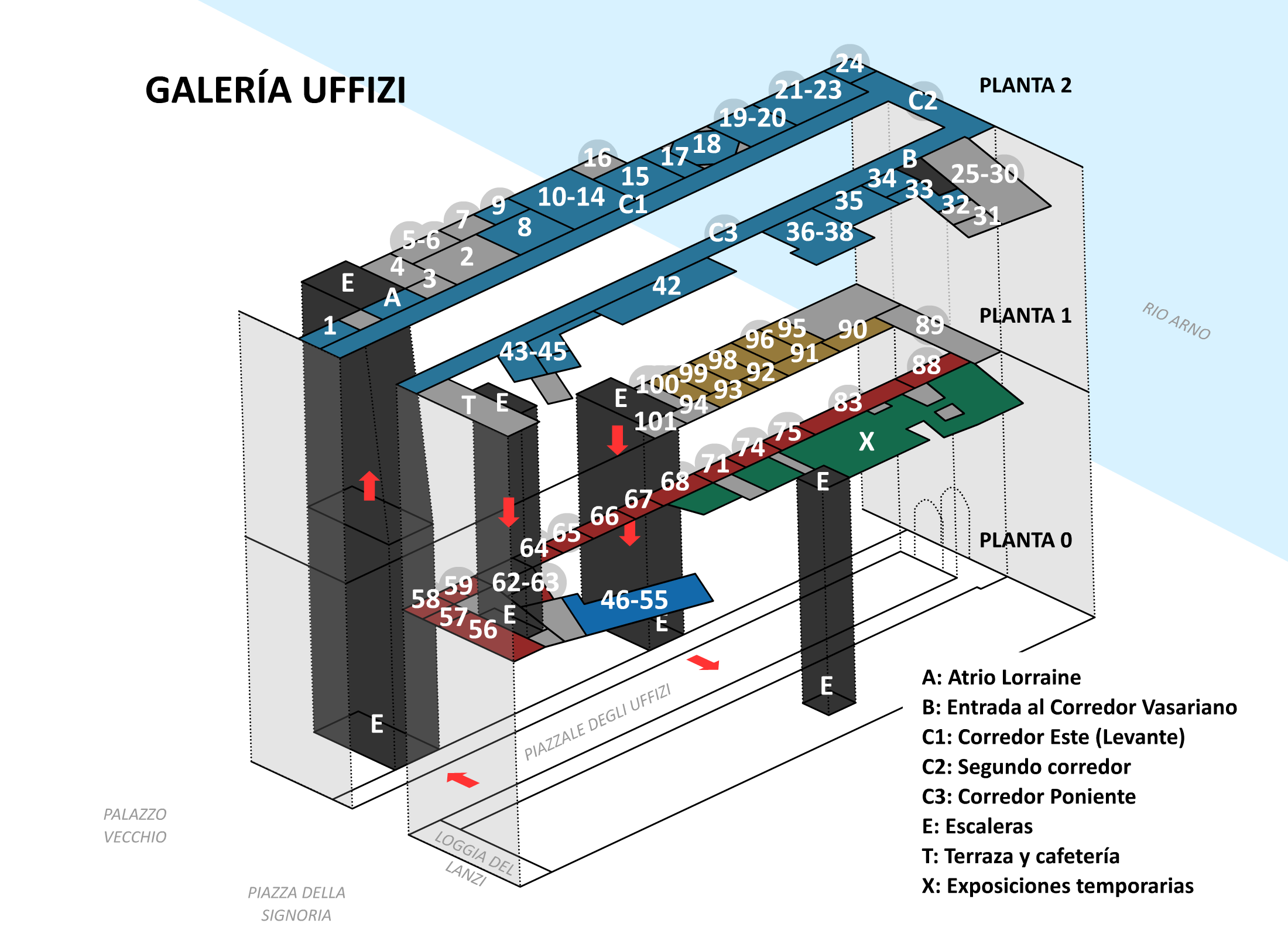 Plan of the Uffizi gallery, Florence, Italy (in spanish)